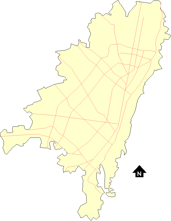 City of Bogotá with its main Roads